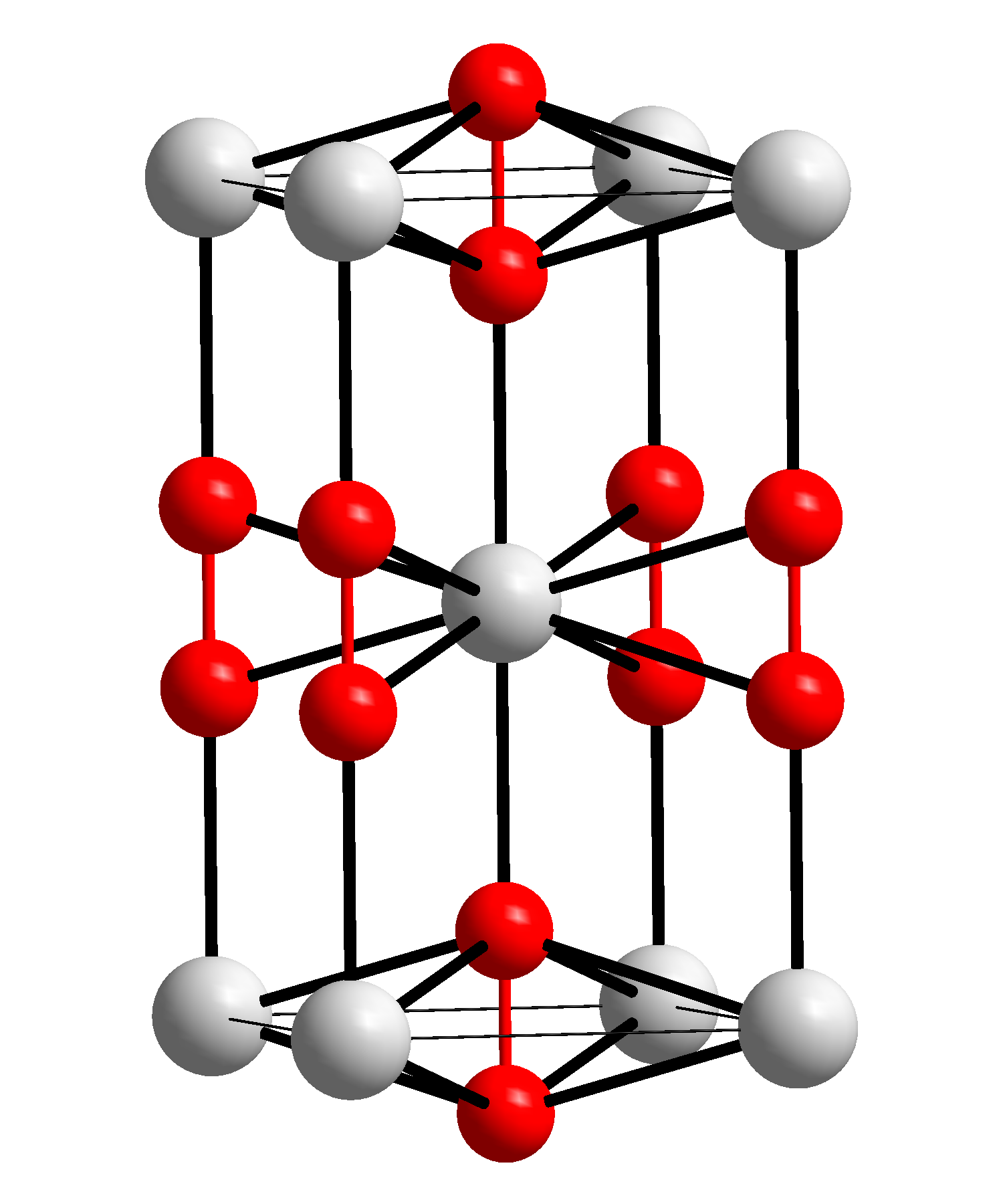 crystal structure of Barium peroxide